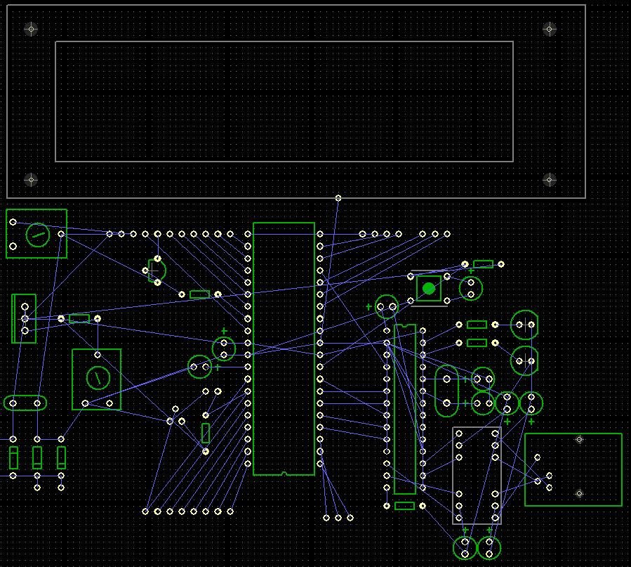 This Diagram shows a rat's nest screen shot from an EDA tool.